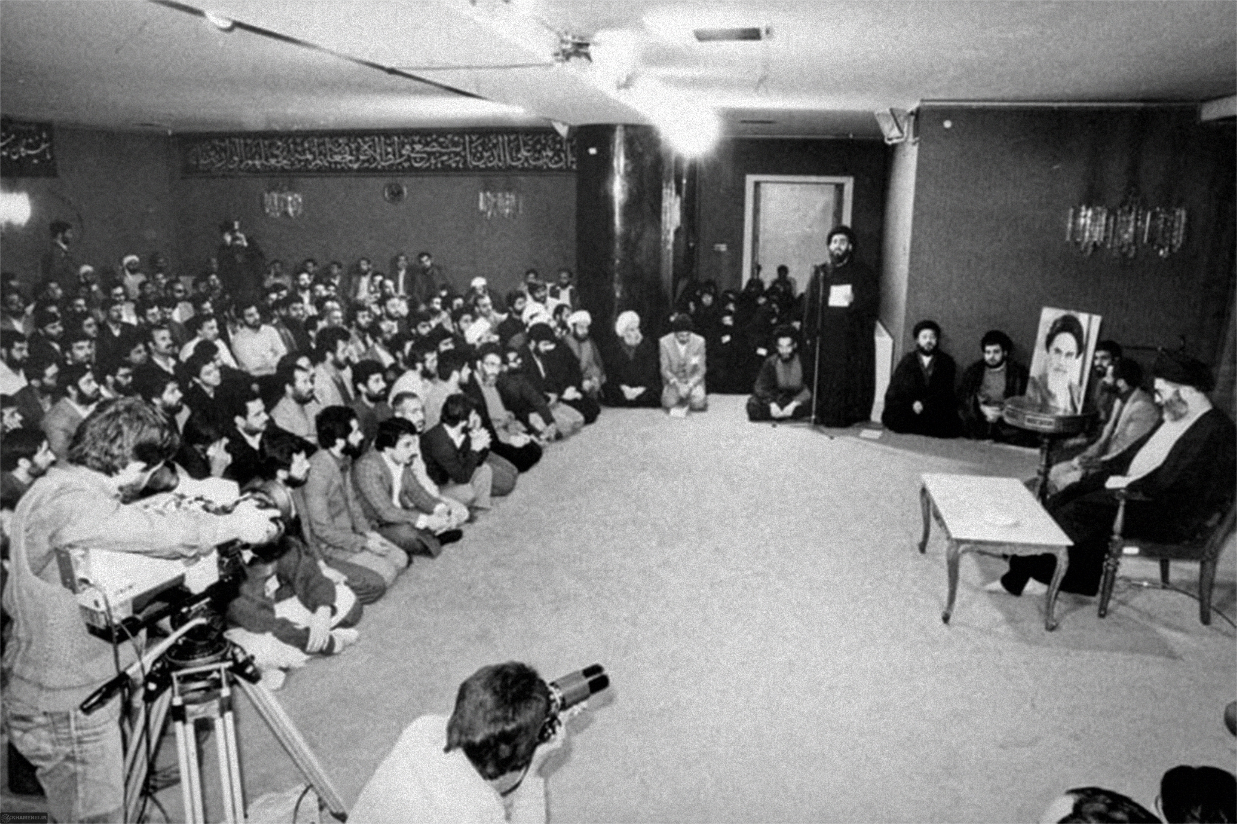 Mahmoud Hashemi Shahroudi